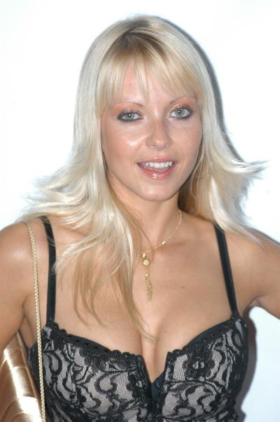 Jana Cova at Digital Playground party for movie Island Fever 4, September 17 2006